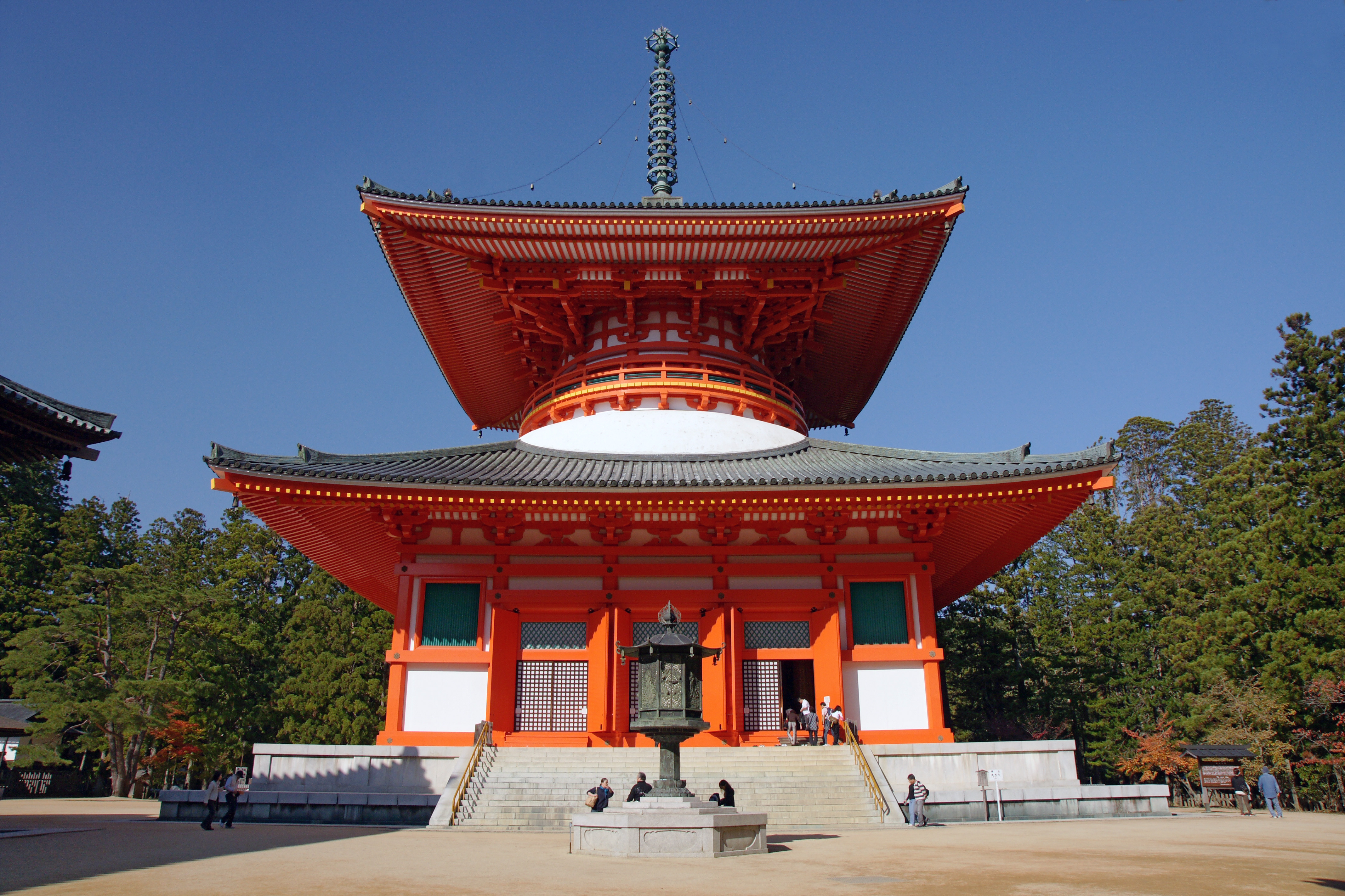 Danjōgaran in Mount Kōya, Wakayama prefecture, Japan.